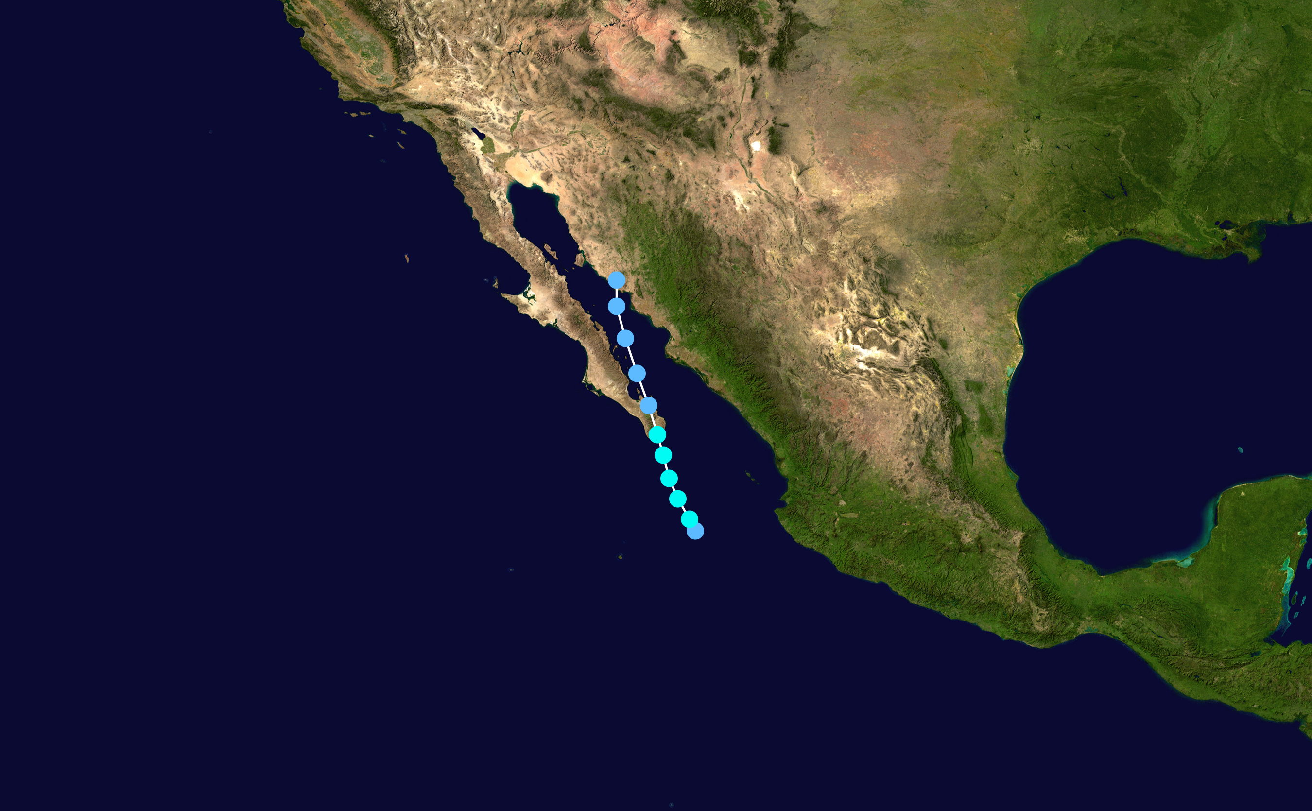 Track map of Tropical Storm Georgette of the 2010 Pacific hurricane season. The points show the location of the storm at 6-hour intervals. The colour represents the storm's maximum sustained wind speeds as classified in the Saffir–Simpson scale (see below), and the shape of the data points represent the nature of the storm, according to the legend below. Saffir–Simpson scale Tropical depression≤38 mph≤62 km/h Category 3111–129 mph178–208 km/h Tropical storm39–73 mph63–118 km/h Category 4130–156 mph209–251 km/h Category 174–95 mph119–153 km/h Category 5≥157 mph≥252 km/h Category 296–110 mph154–177 km/h Unknown Storm type Tropical cyclone Subtropical cyclone Extratropical cyclone / Remnant low / Tropical disturbance / Monsoon depression